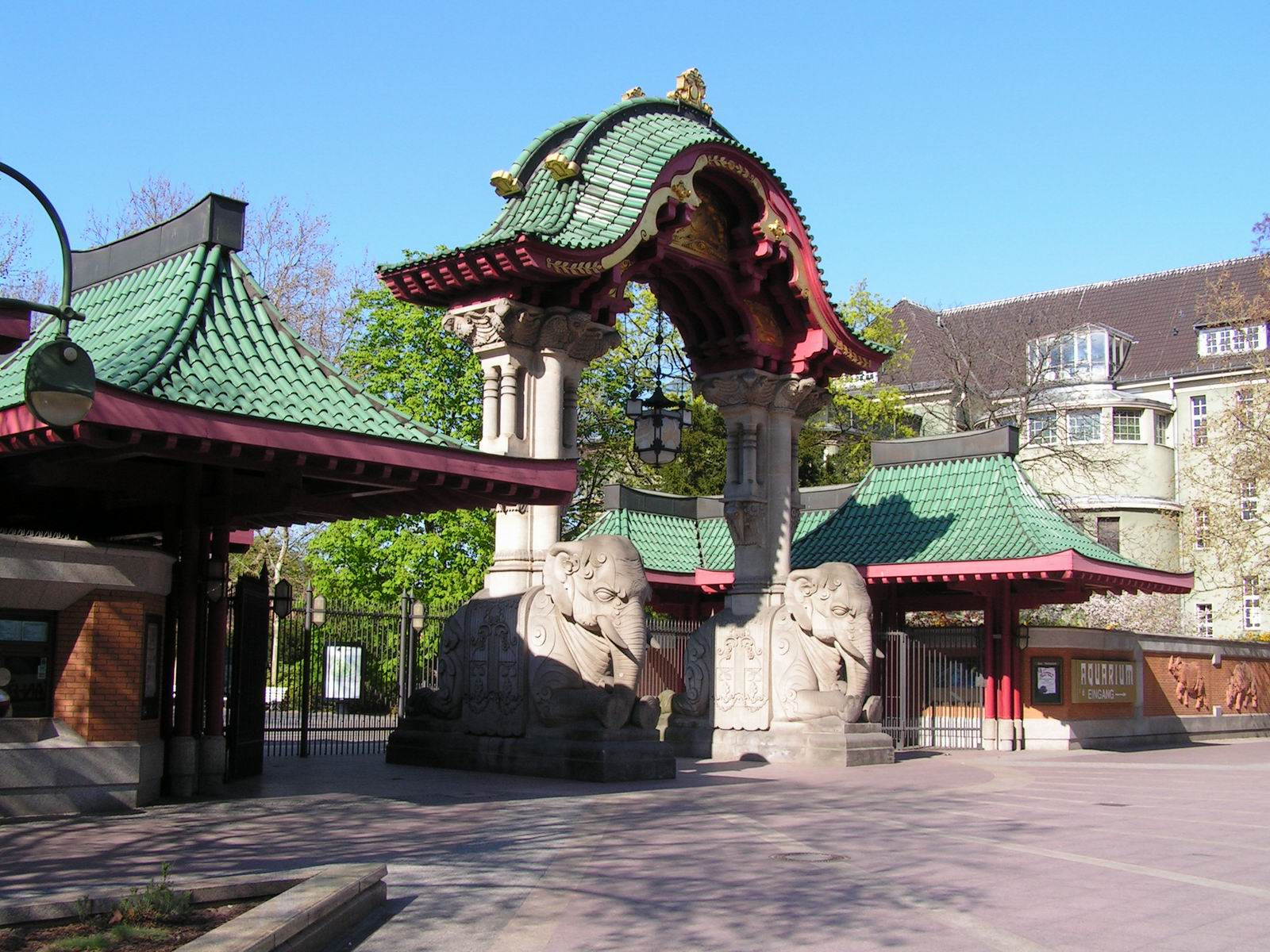 The "elephants gate" of the Zoo in Berlin; entrance Budapester Straße.